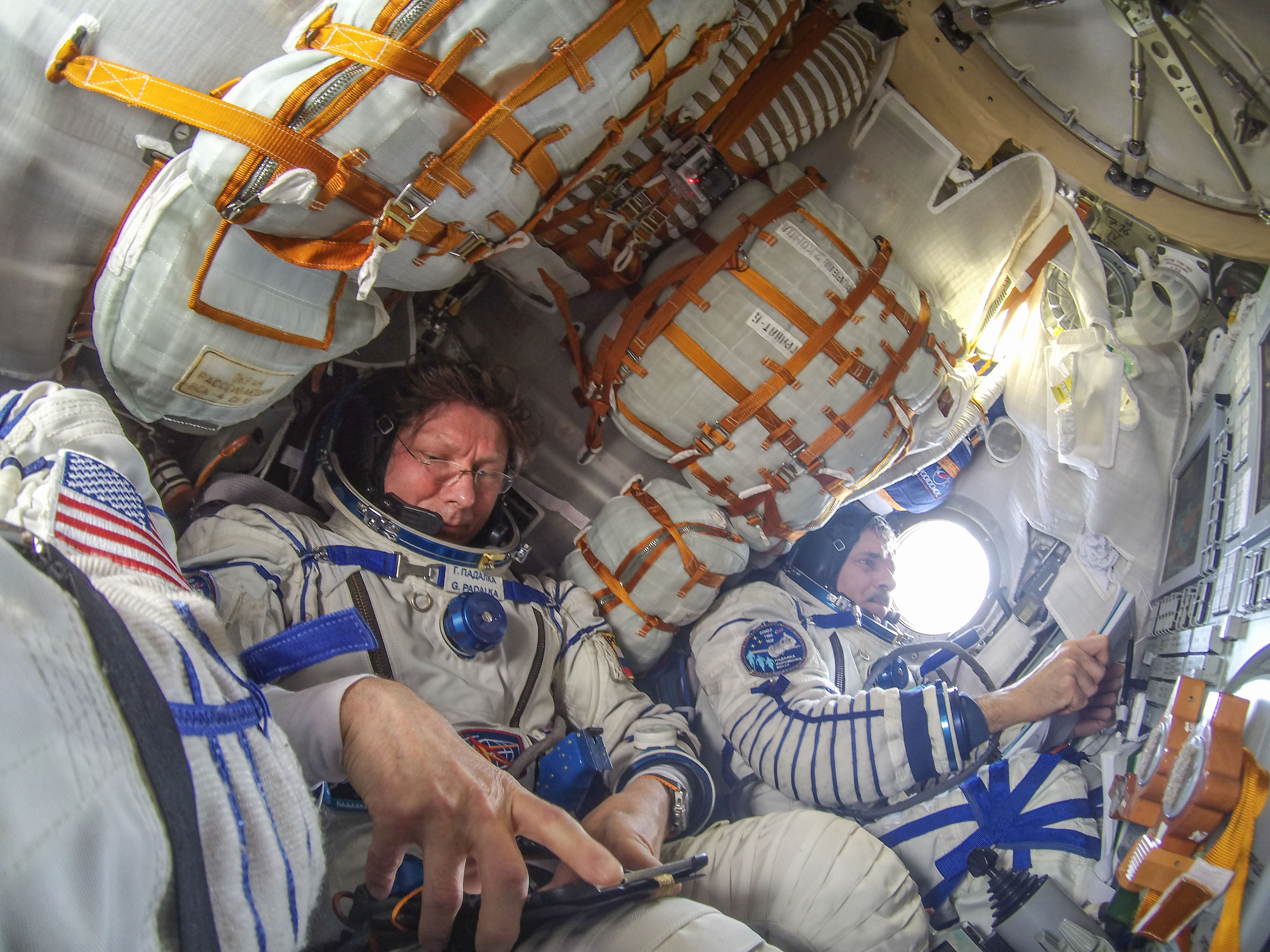 Expedition 44 commander Gennady Padalka (center) is seen seated inside of the Soyuz TMA-16M spacecraft prior to its relocation maneuver. One-year crew members Mikhail Kornienko (right) and Scott Kelly (left) joined Padalka as they moved their Soyuz from the Poisk module to the aft end of the Zvezda service module.